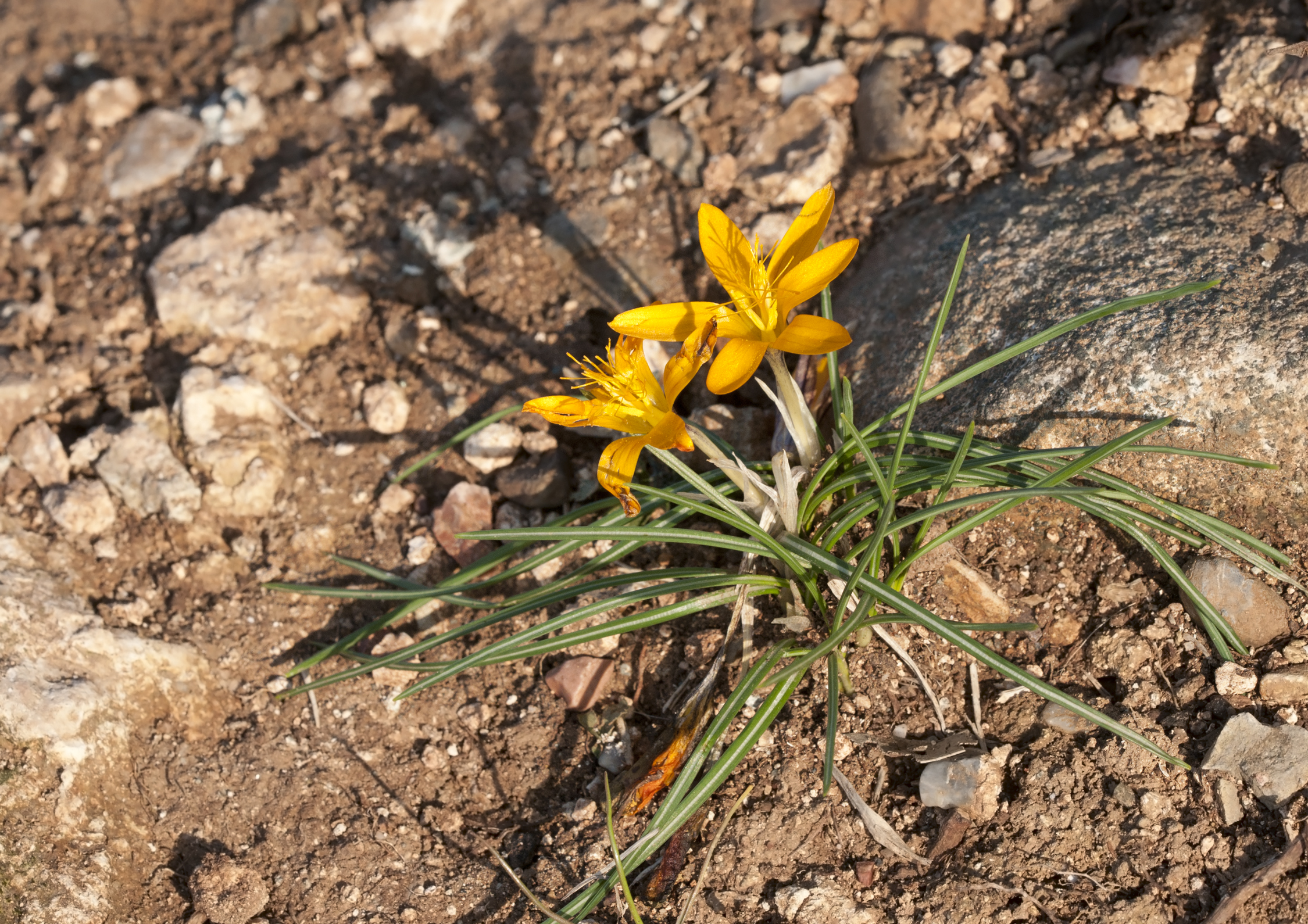 Cloth of gold (Crocus graveolens). Çukurova University Campus, Adana - Turkey.